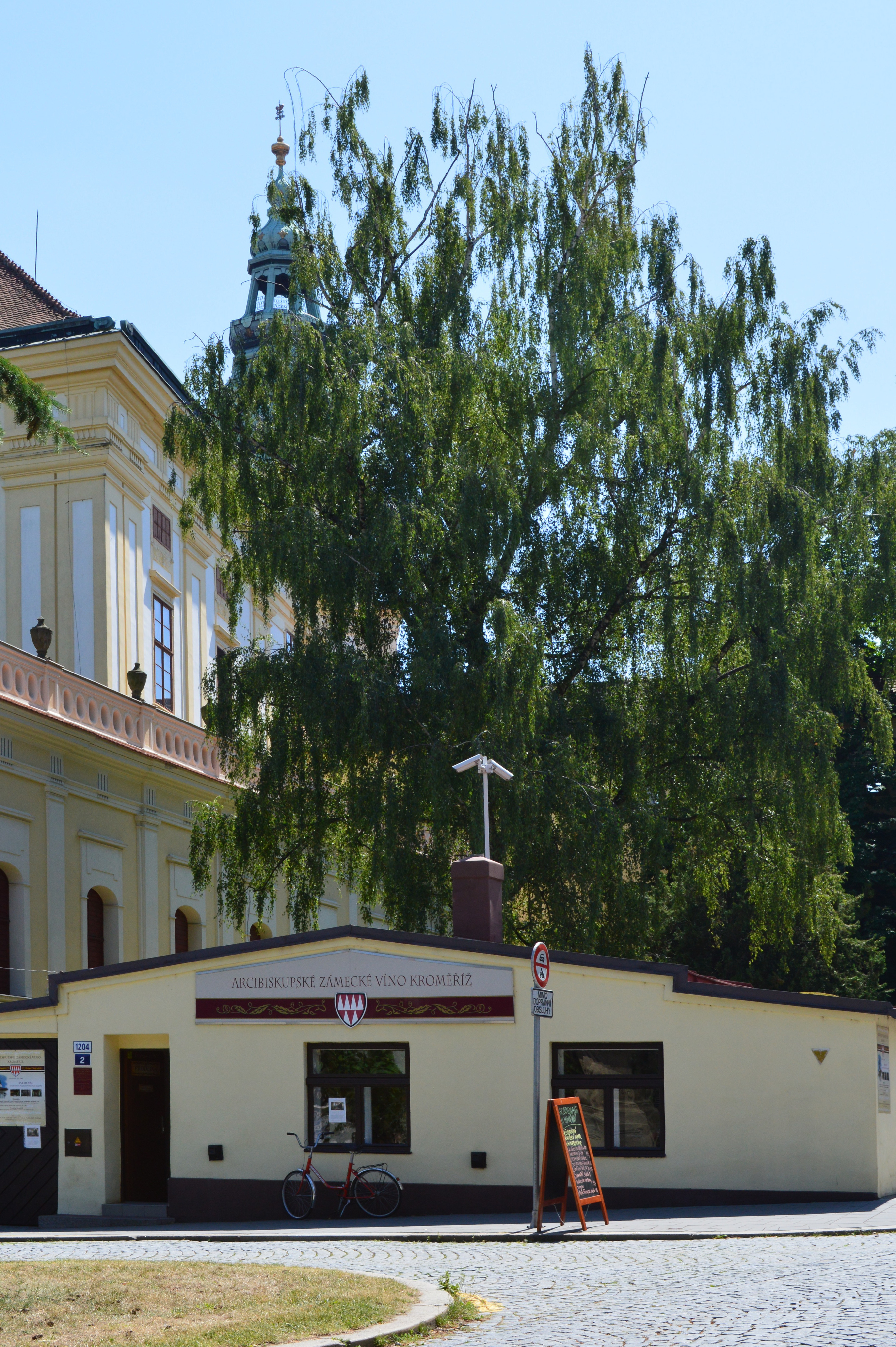 Kroměříž (Polish: Kromieryż